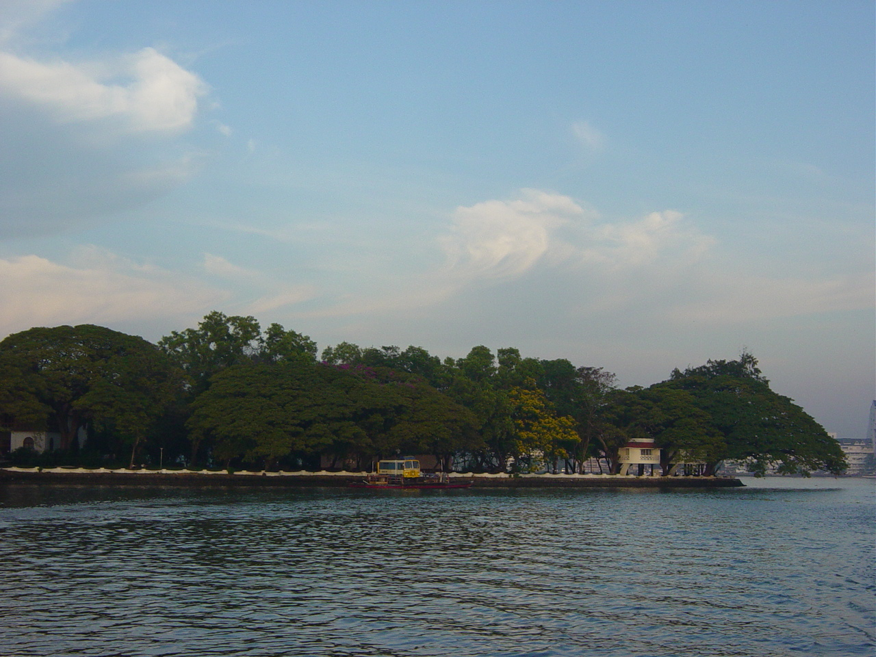 Bolgatty island - Ernakulam